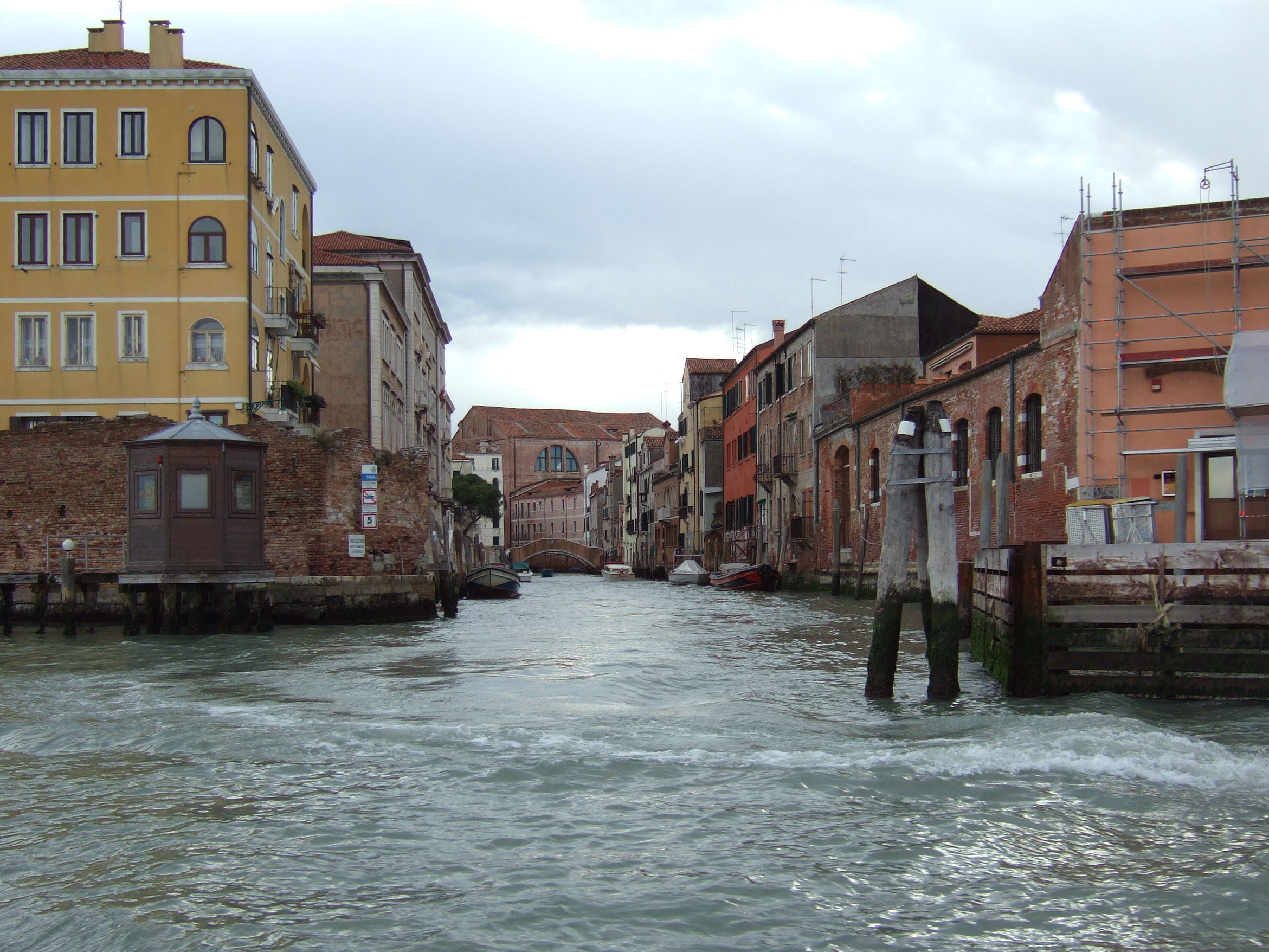 Rio di Santa Giustina (Venice)